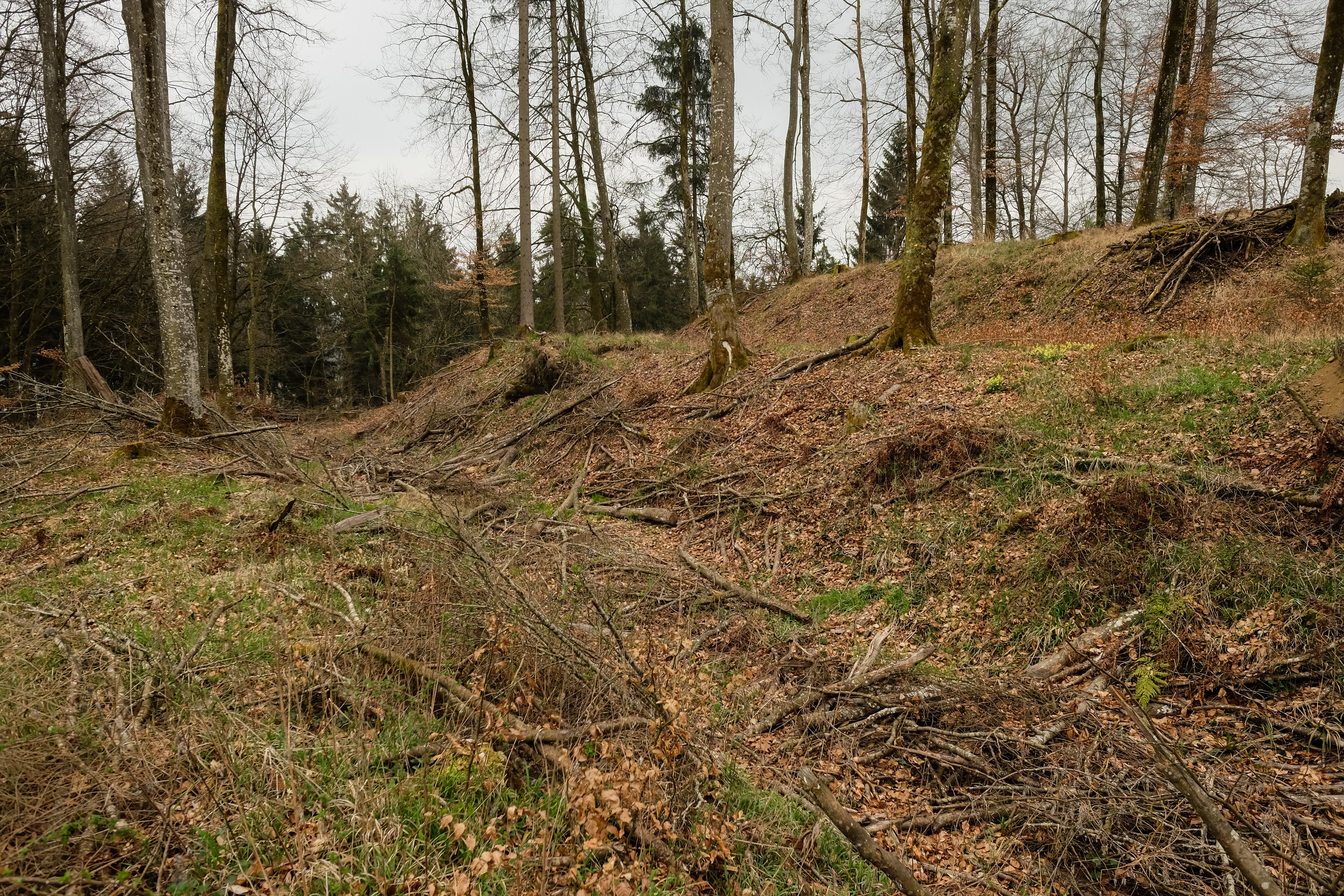 Demolished castle Hünaburg near Krauchenwies-Bittelschieß, Landkreis Sigmaringen, Baden-Württemberg, Germany